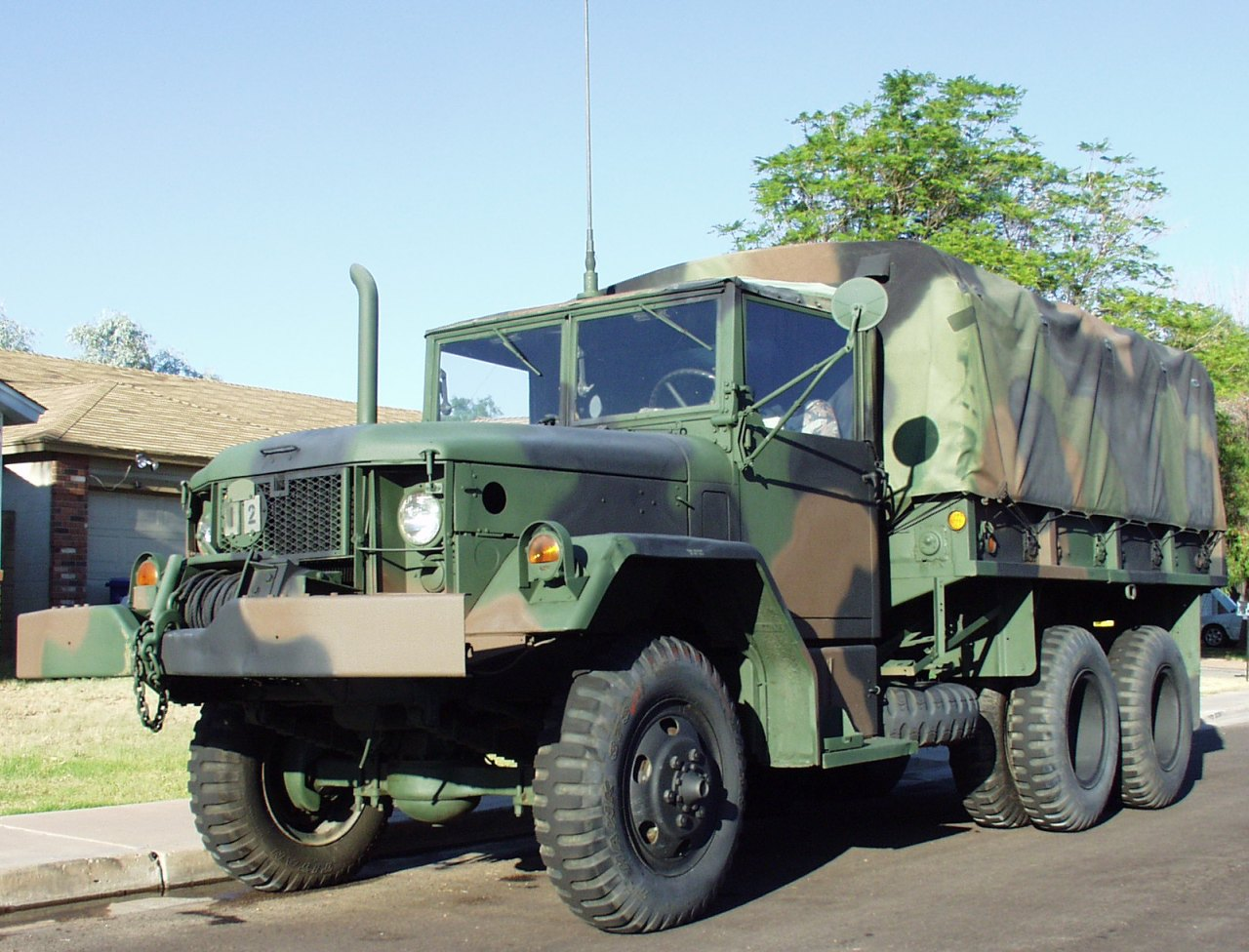 1971 AM General M35A2 with winch and camouflage cargo cover. Vehicle shown also has communications antenna which is not common.